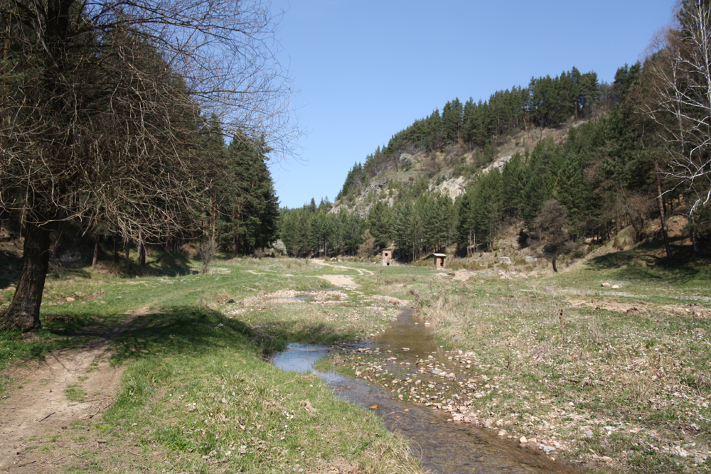 Pasarel vicinity in the Lozens Mountain